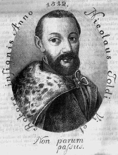 Portrait of Miklós Toldi (1320–1390) Hungarian squire[1]